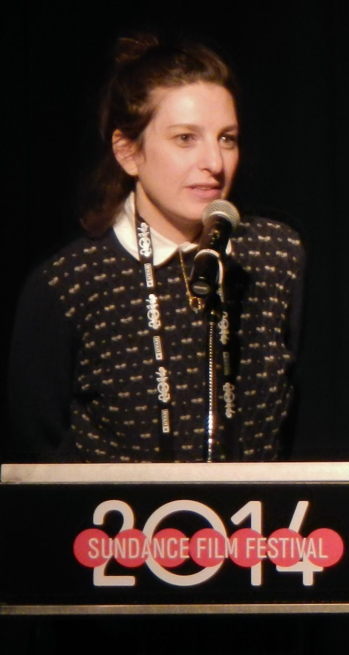 "Obvious Child" at Sundance 2014. Gillian Robespierre, Jenny Slate, and Gabe Liedman.